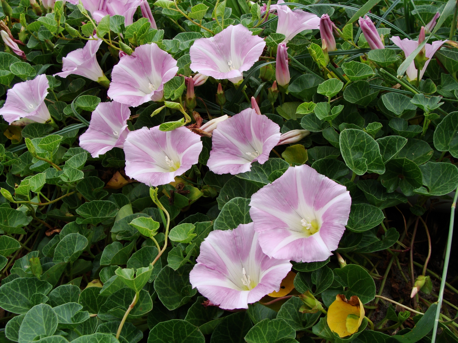 Calystegia soldanella, Gappo Park, Aomori City, Aomori Prefecture, Japan